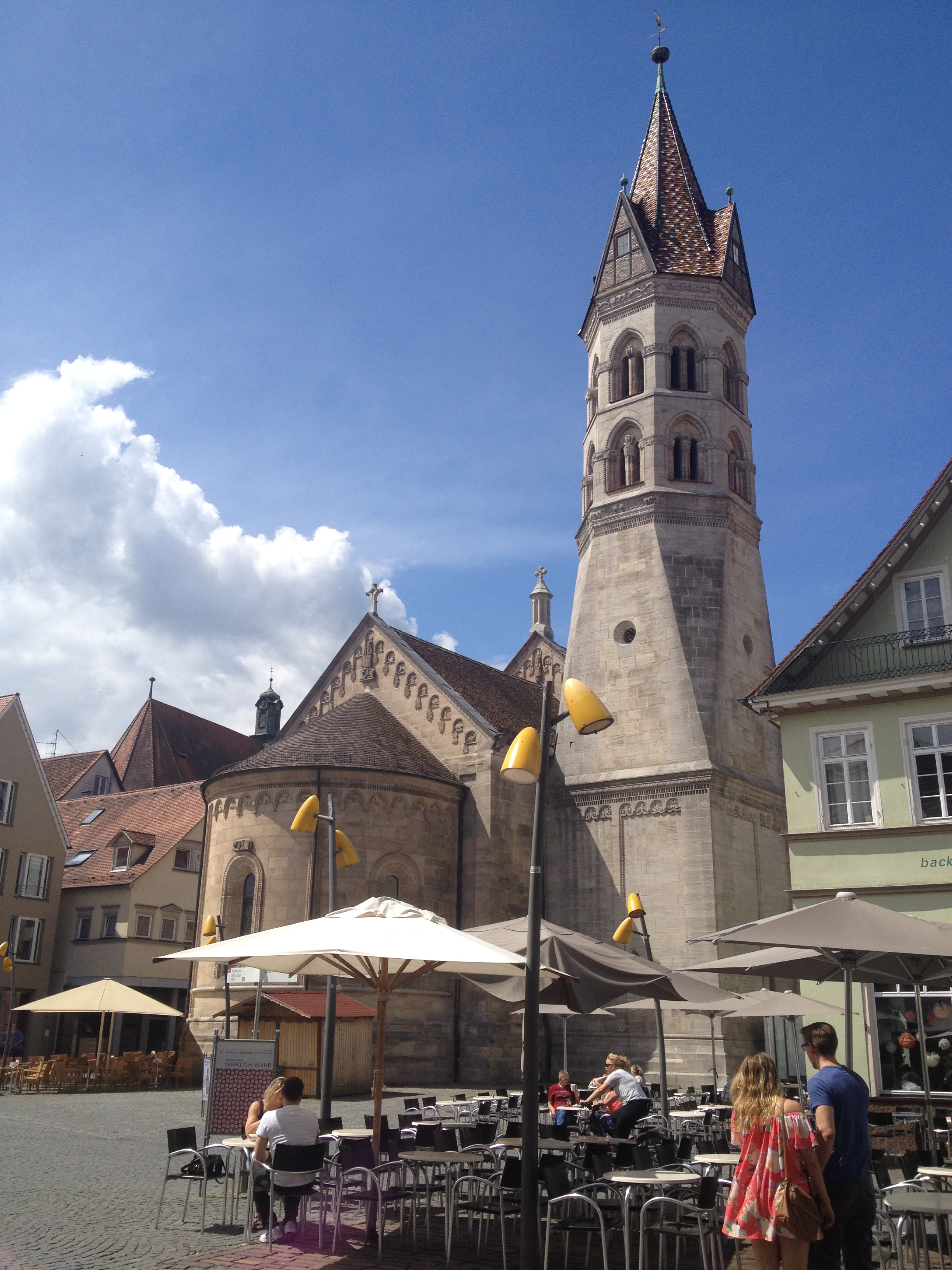 A view of the east side of the church, the Münster roof and tower can be seen in the background.